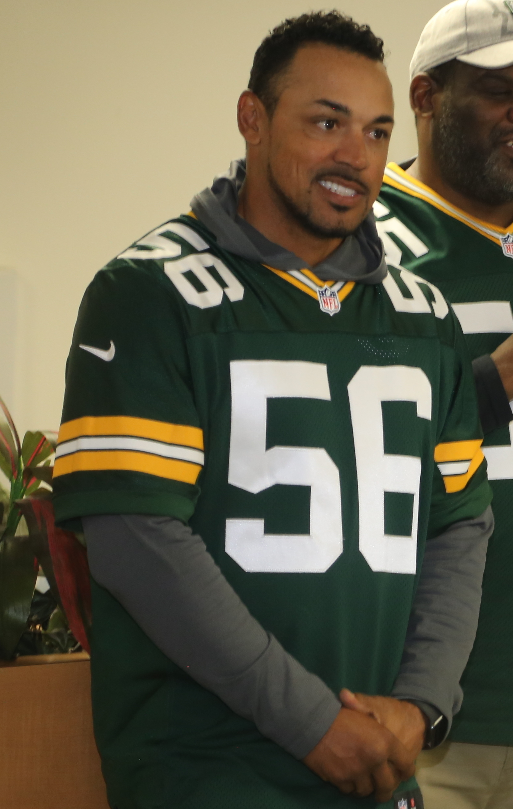 Members of the Green Bay Packers Tailgate Tour meet with Soldiers at a dining facility April 10, 2019, at Fort McCoy, Wis. Packers President/CEO Mark Murphy and six Packers alumni were among the people on the 14th annual Packers Tailgate Tour who visited Fort McCoy. Packers alumni on the tour were Earl Dotson, Nick Barnett, Ryan Grant, Aaron Kampman, Scott Wells, and Bernardo Harris. All of the tour members mingled with Soldiers, signed autographs, and posed for photos. Tour members also visited Fort McCoy’s Range 2 to learn about operations for Operation Cold Steel III and Task Force Fortnite. (U.S. Army Photo by Scott T. Sturkol)